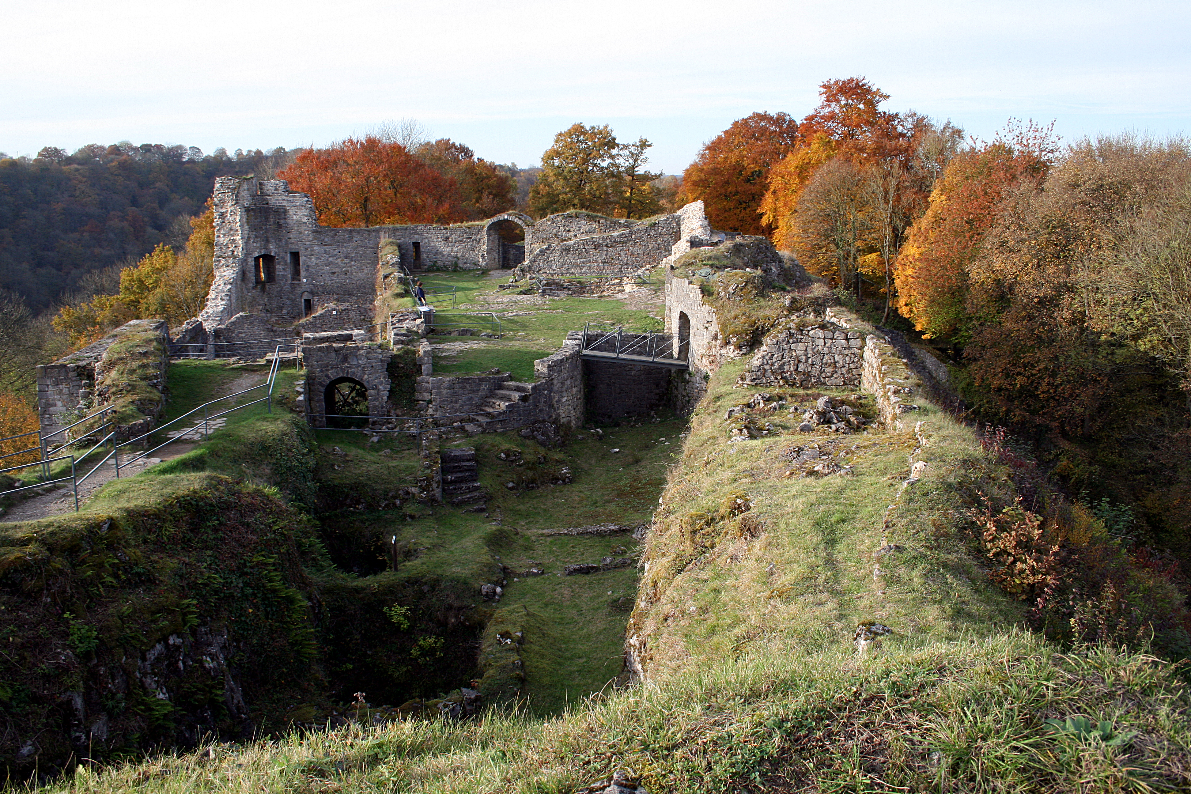 Castle ruins of Logne in Vieuxville, Belgium (IX-XVIIth centuries).